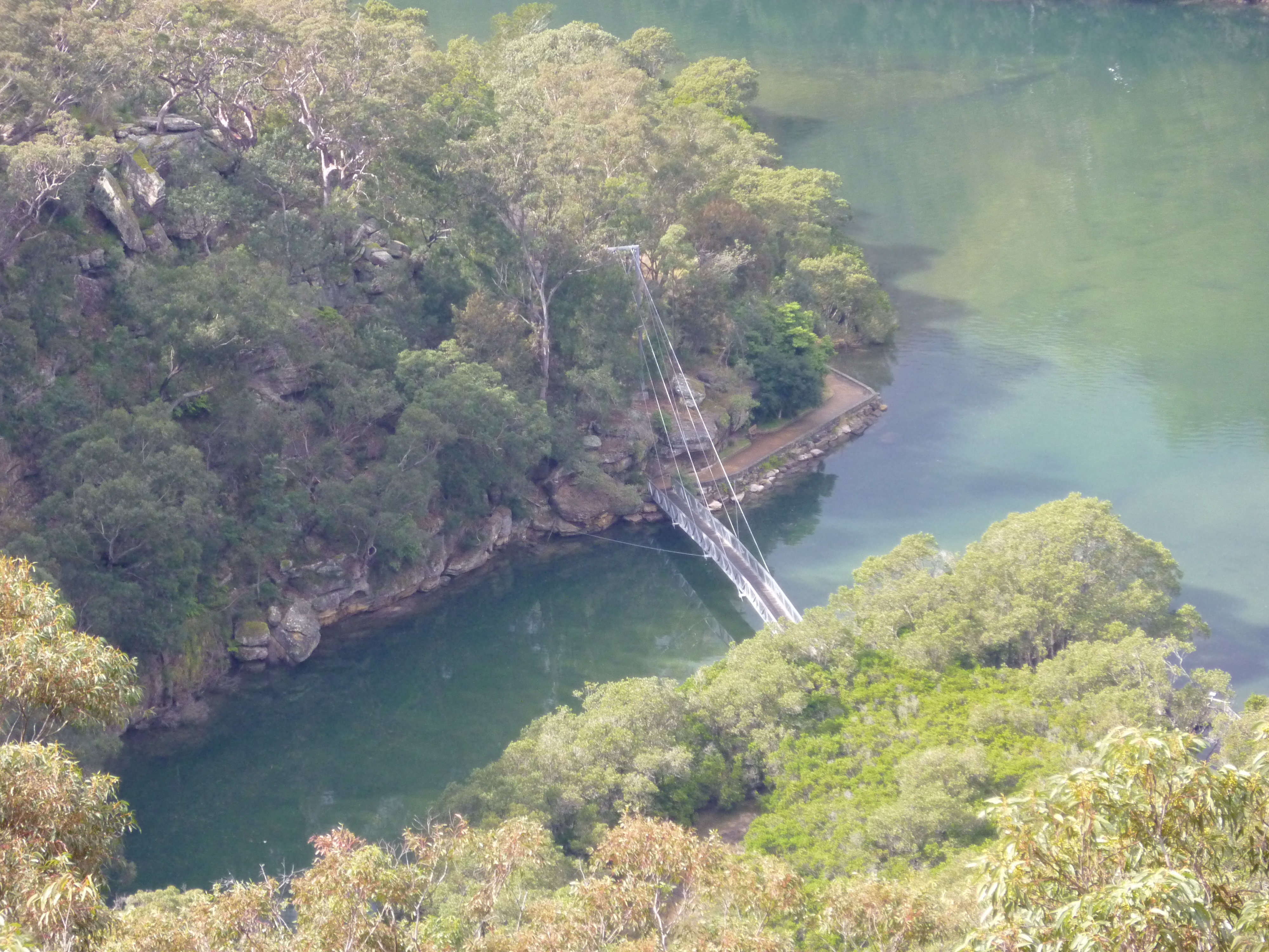 view to board walk (Bobbin Head) from Kalkari visitor centre